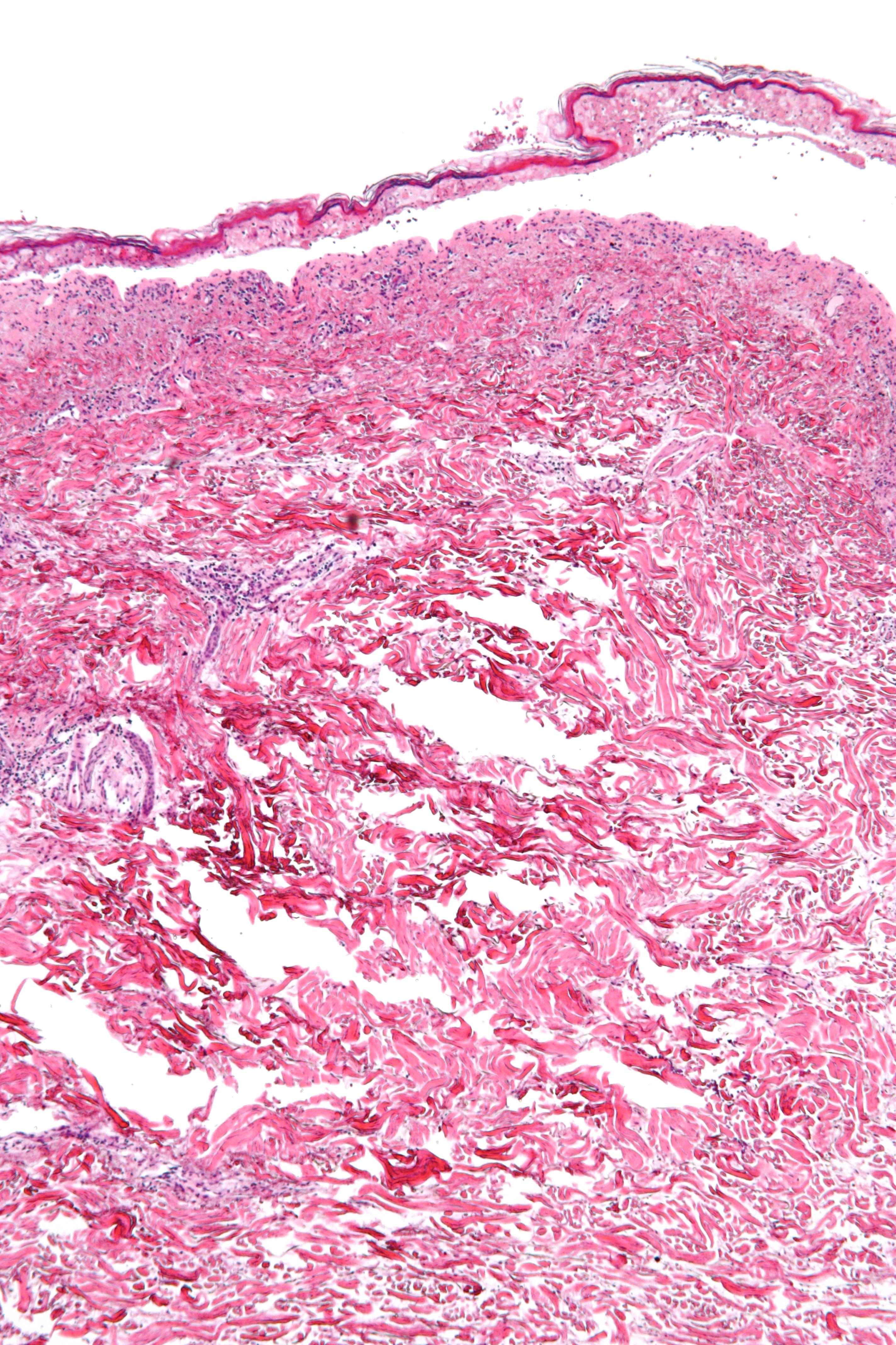 Low magnification micrograph of confluent epidermal necrosis. Skin biopsy. H&E stain. Confluent epidermal necrosis is seen in the context of erythema multiforme (EM), Stevens-Johnson syndrome (SJS) and toxic epidermal necrolysis (TEN). SJS and TEN are generally considered to be on a spectrum and usually due to medications. EM is histomorphologically indistinguishable from SJS/TEN. It is usually due to an infection. Histomorphologic features: A basket weave-type stratum corneum (indicative of the acuity). Epidermal necrosis. Separation of the epidermis and dermis. Minimal inflammation. Related images Low mag. Intermed. mag. High mag. Very high mag.